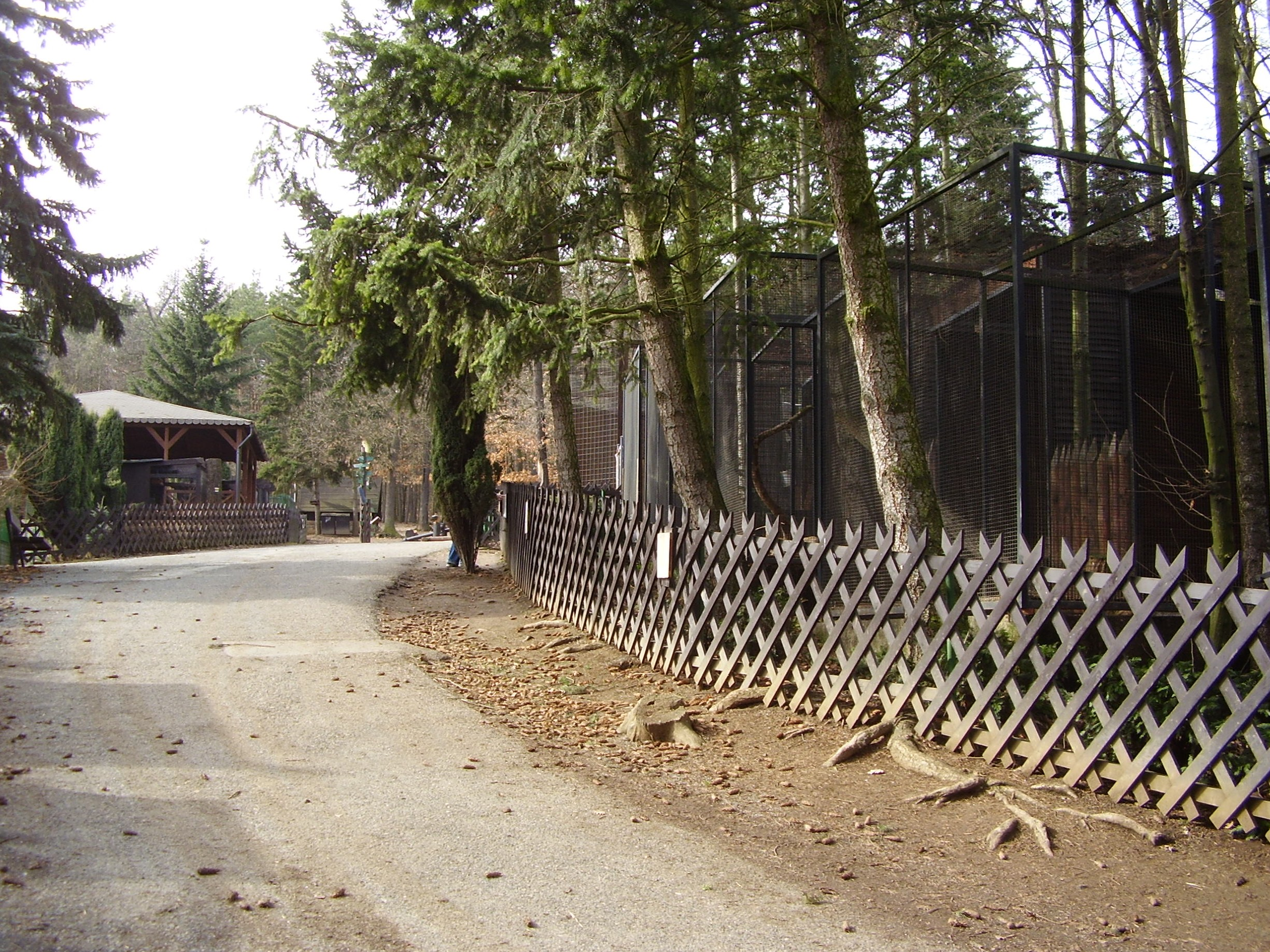 MiniZOO in Malá Chuchle, Prague